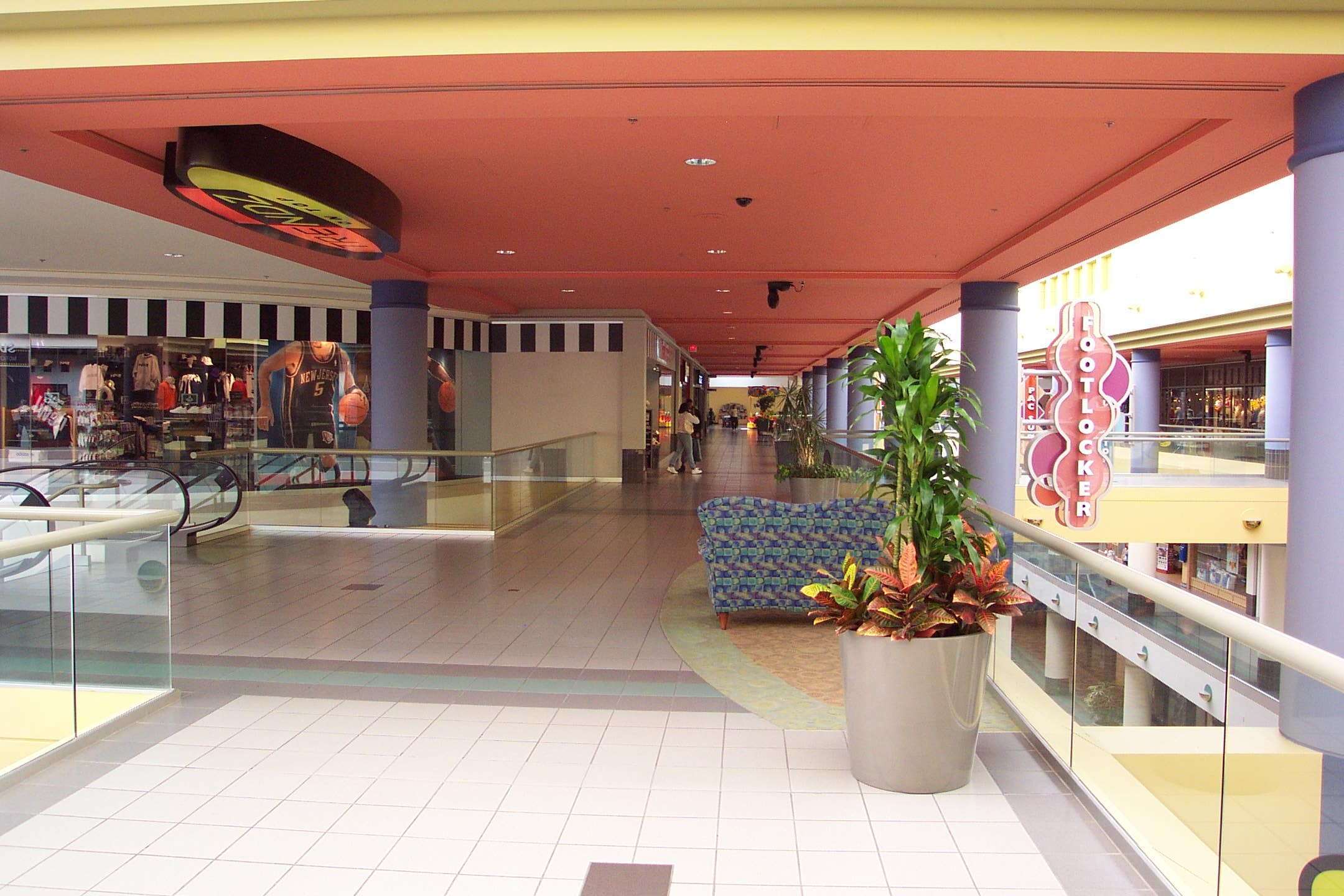 Trendz at the Southdale Center